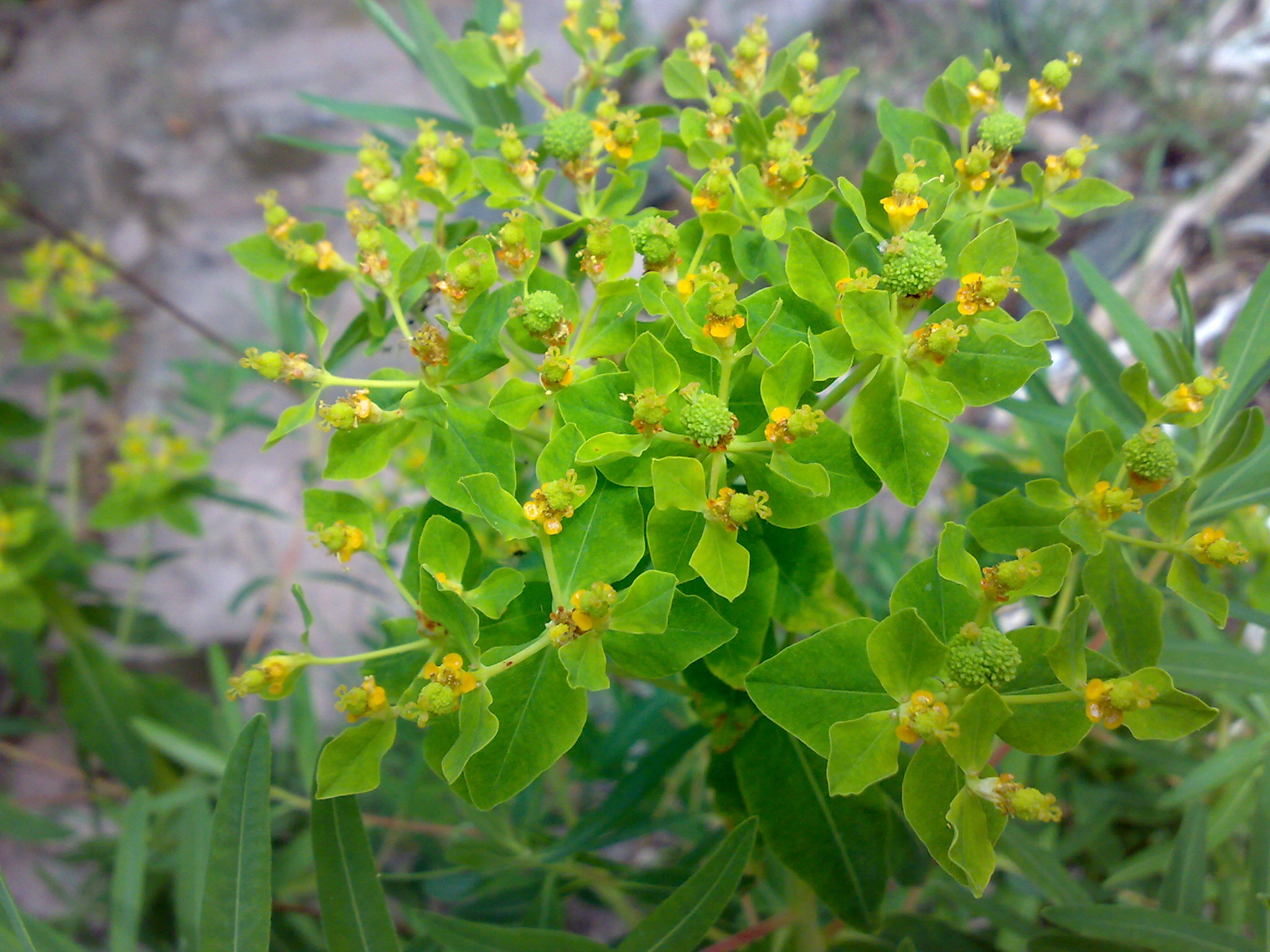 Euphorbia palustris Strandvortemelk